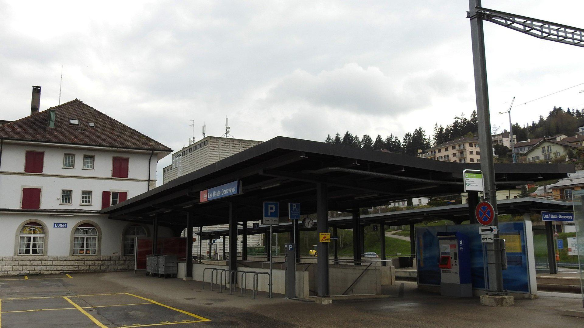 Les Hauts-Geneveys railway station in Val-de-Ruz, Switzerland.